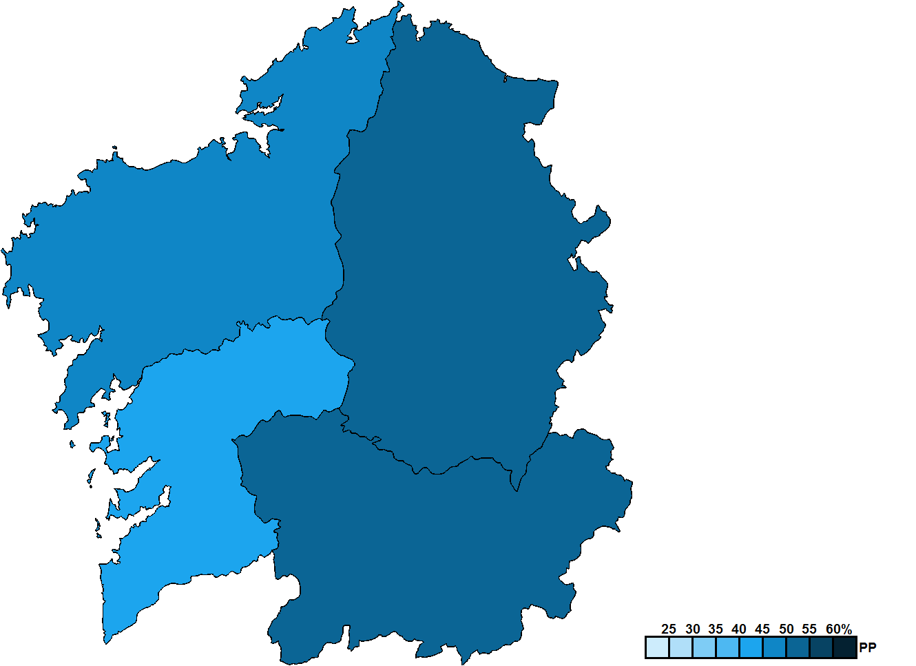 Provincial results for the 2020 Galician regional election.